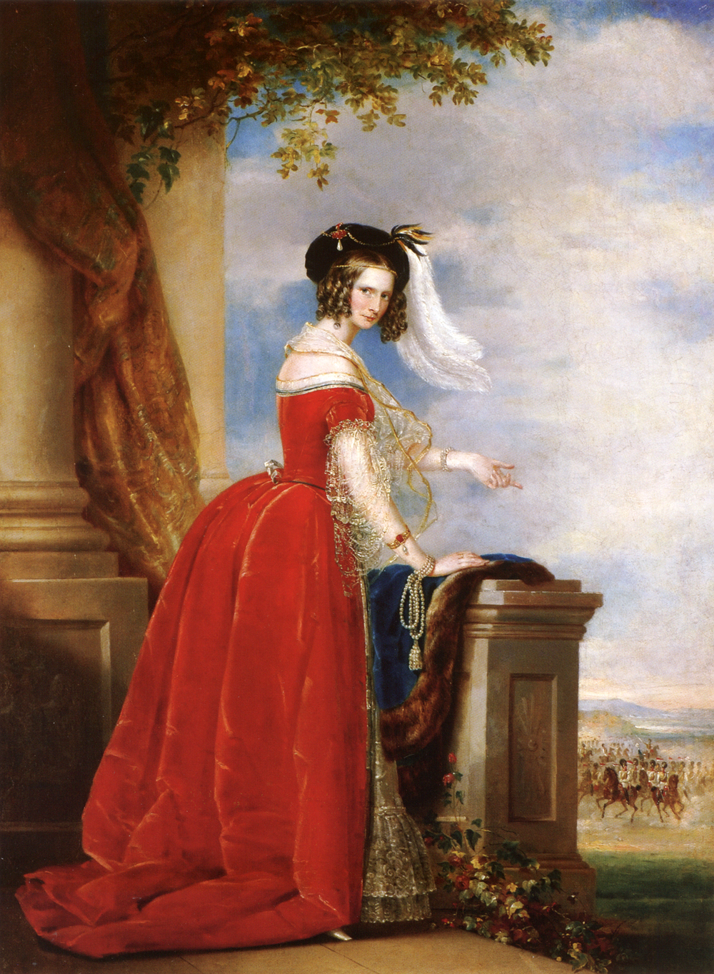 Alexandra Feodorovna (Charlotte of Prussia)